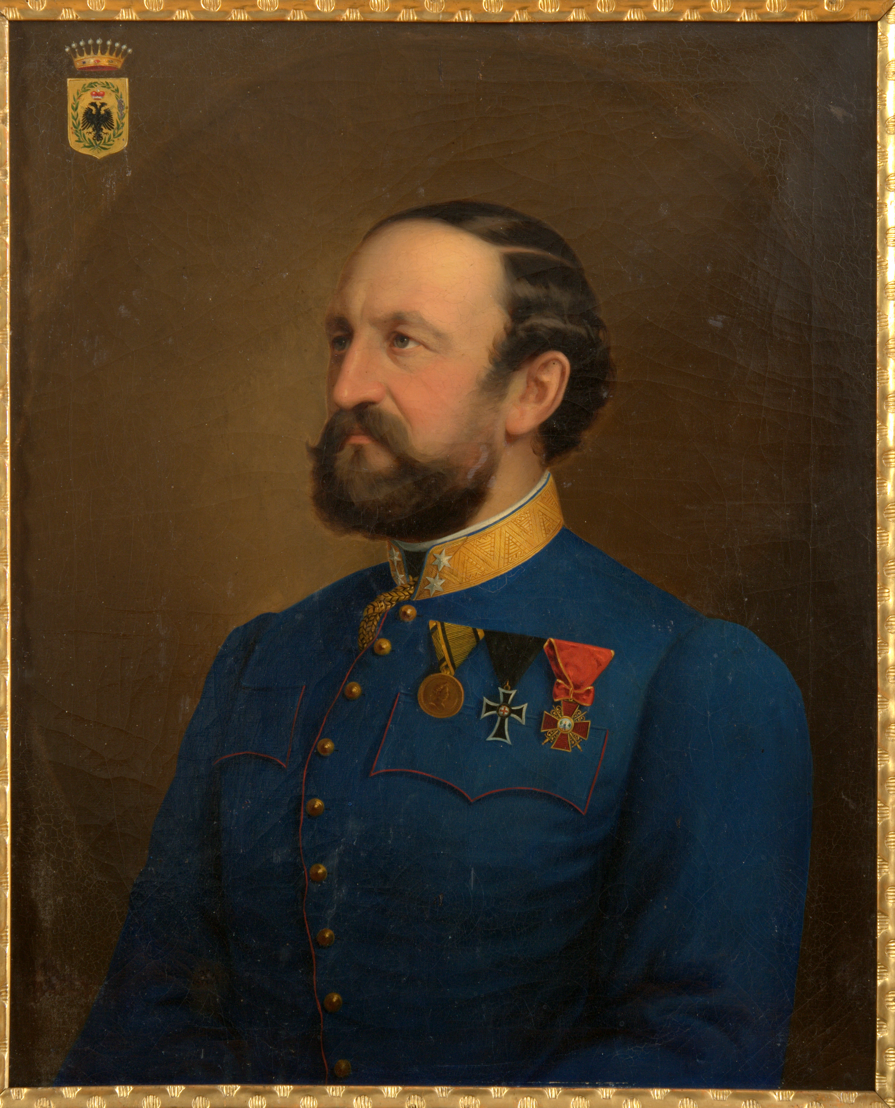 Wladimir Count Logothetti (1822-1892) in the uniform of the honorary member of the German Knight Order with all his decorations, portrait 61 x 77 cm by an unknown painter c1870. Original painting now in possession of the Slovácké Muzeum, Uherské Hradiště, Czech Republic. Coat of arms of the Logothetti family. Nikon D300 + AF-S Micro Nikkor 60mm f/2.8G ED